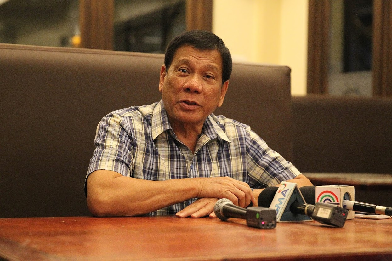 President Rodrigo Roa Duterte, during a press conference at Hotel Elena in Davao City on August 8, congratulates Filipina Olympian Hidilyn Diaz for winning a silver medal in weightlifting at the Rio Olympics 2016.